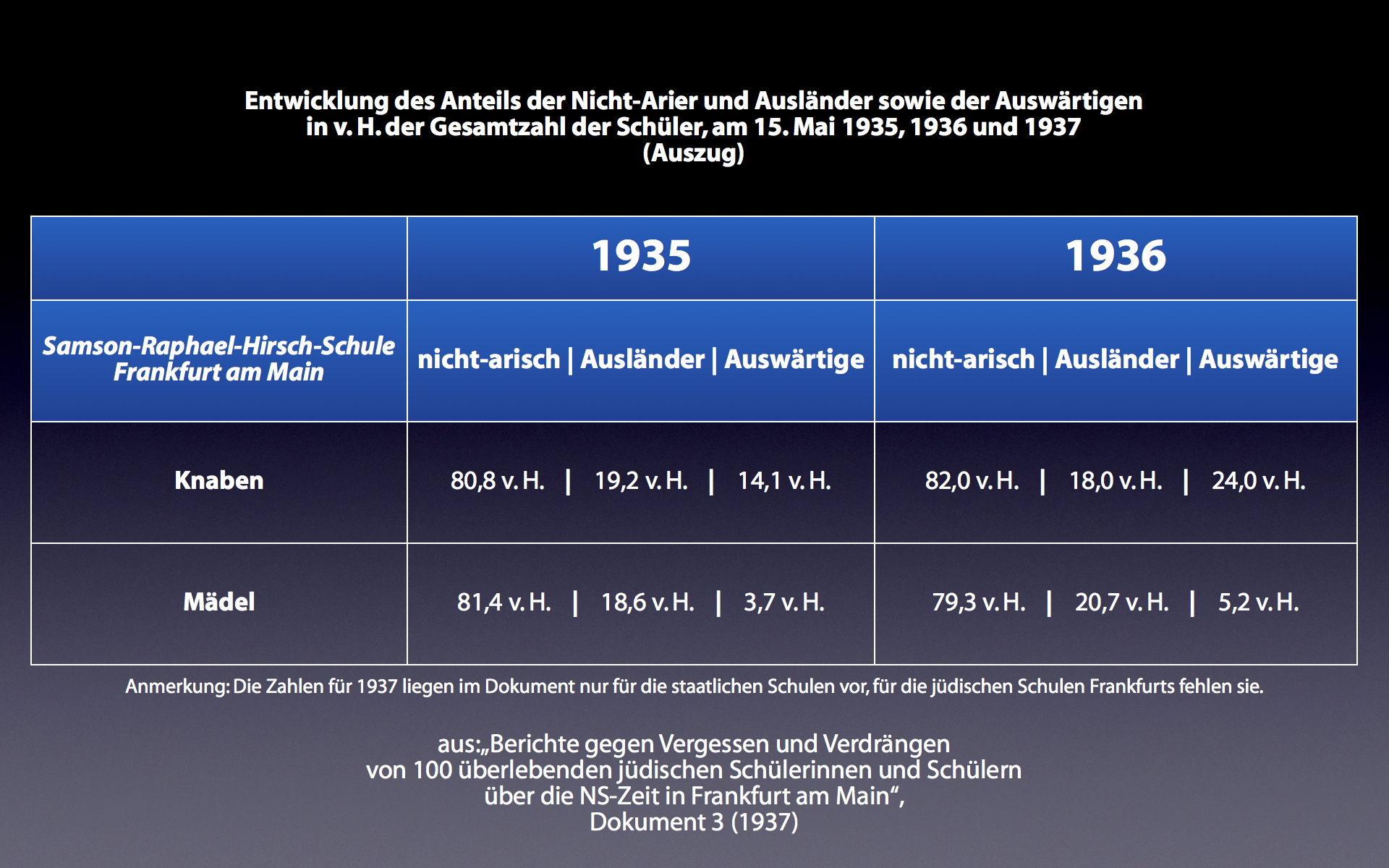 Official statistics as of 1935–1937 by Frankfurt's school administration. The graphics represents the Nazi classifications of pupils (Knaben = boys, Mädel = girls) enlisted to the jewish Samson-Raphael-Hirsch-Schule in Frankfurt am Main, Hesse, Germany. Data were separated by categories as "nicht-arisch" = "non-Arian", Ausländer = Alien, Auswärtige = out-of-towner. Results for 1937 are not available in the original document this graphics is referring to. A significant growth is caused by a move of jews from the countryside to get shielded within the much larger jewish communities of the big cities. At the same time jewish kids got evacuated abroad and wealthy families were able to emigrate from Germany so some statistic results came down.